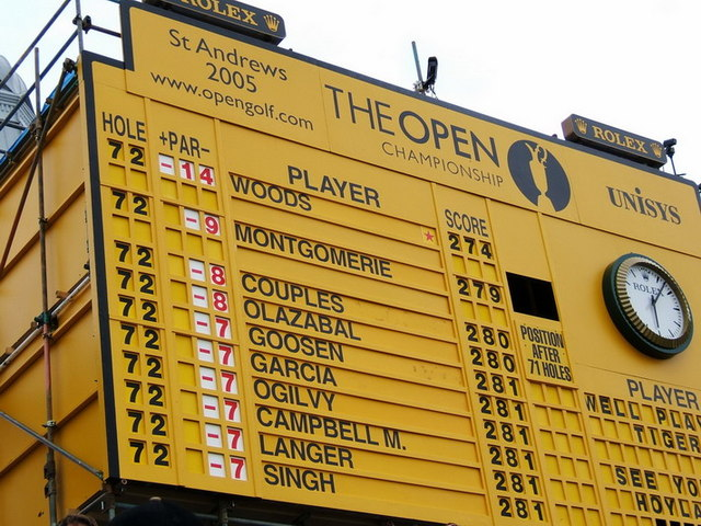 Tiger out of reach Final scores in the 2005 Open Championship. They said "We are not trying to win, we are only trying to beat Tiger Woods."